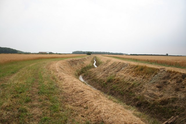 Towards Cold Harbour. From the bridge towards one of the isolated farms in the Trent flood plain